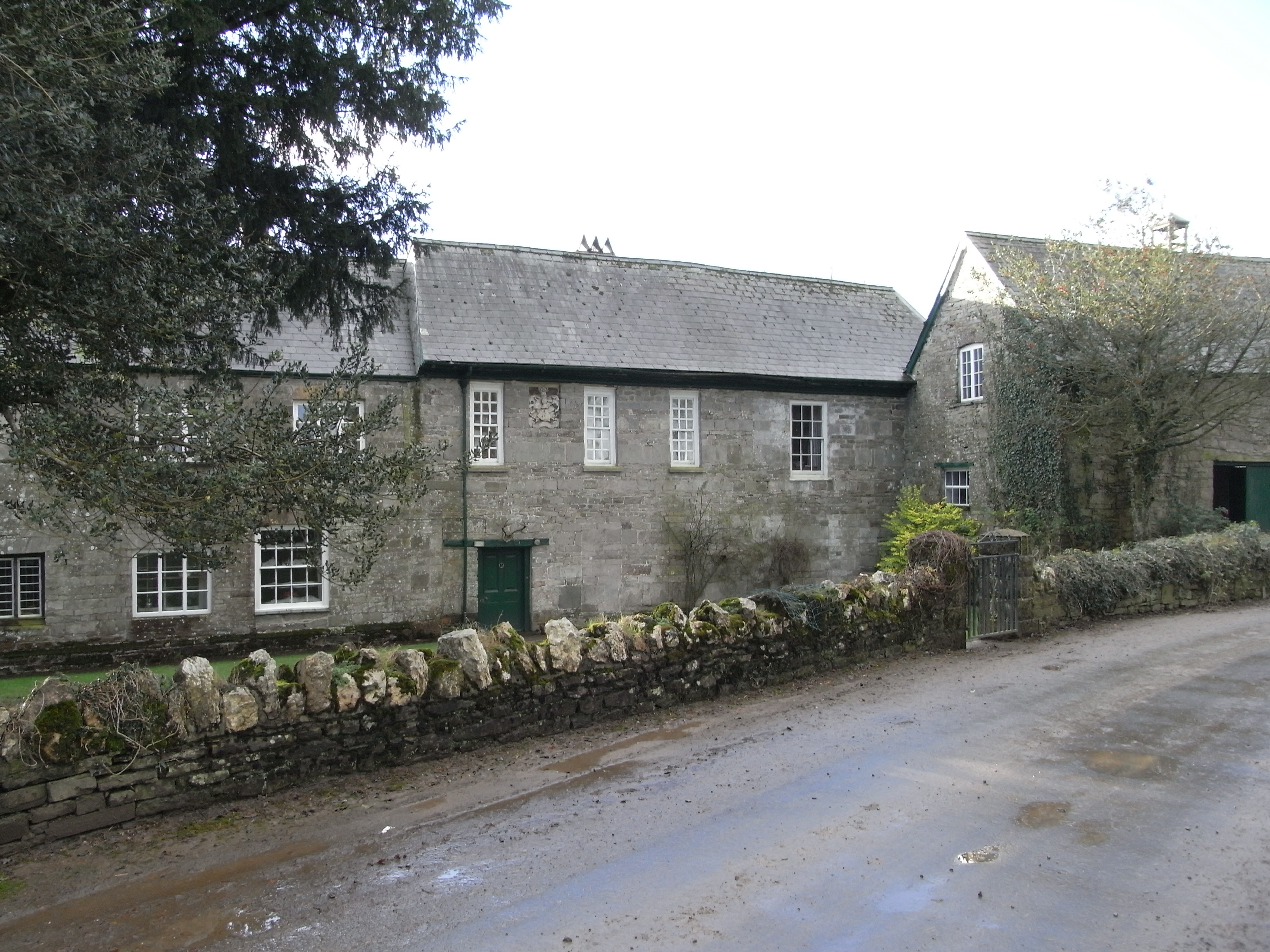 West Molland Barton, Molland, Devon, viewed from north. The old manor house of the Courtenays, later of Throckmortons